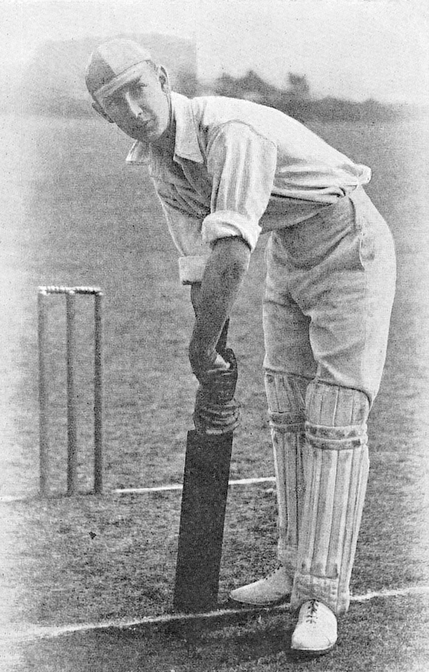 Scan of Cricketer G O Smith